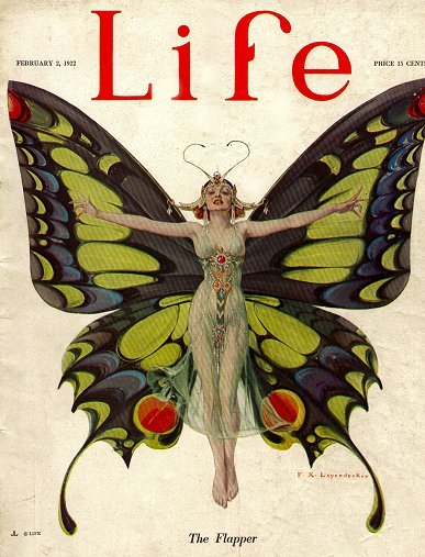 Life Magazine cover "The Flapper" by Frank Xavier Leyendecker, 2 February, 1922